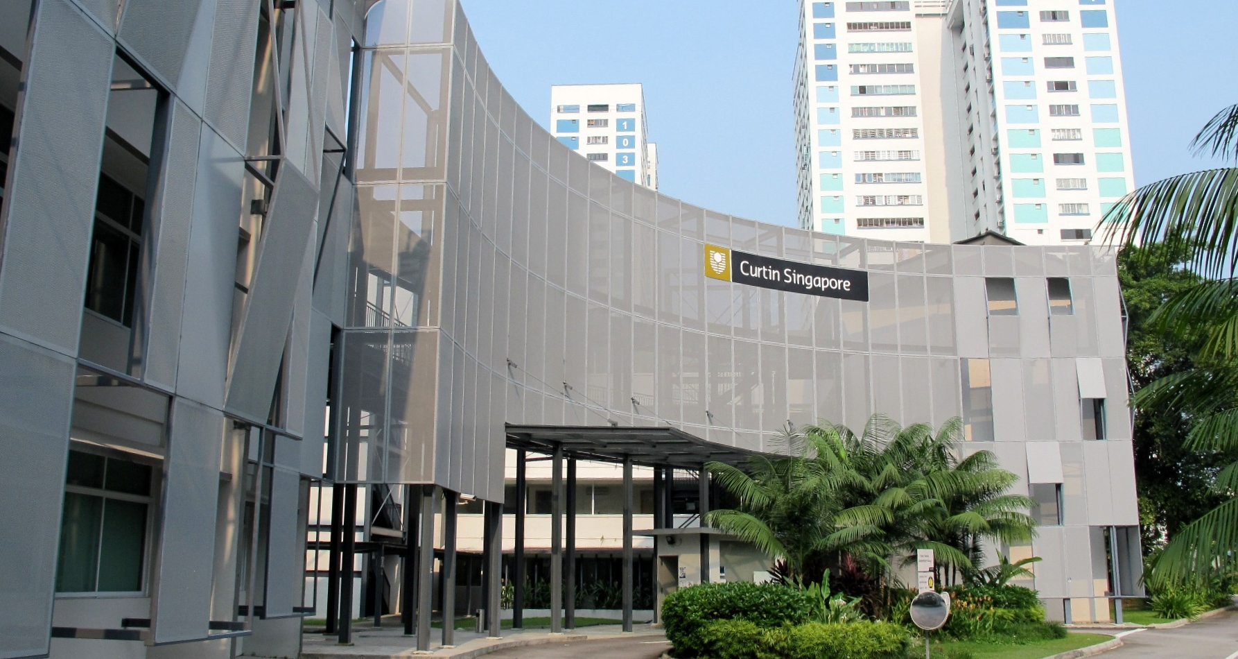 Photo of Curtin Singapore campus facade